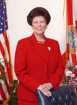 State representative Toni Jennings.